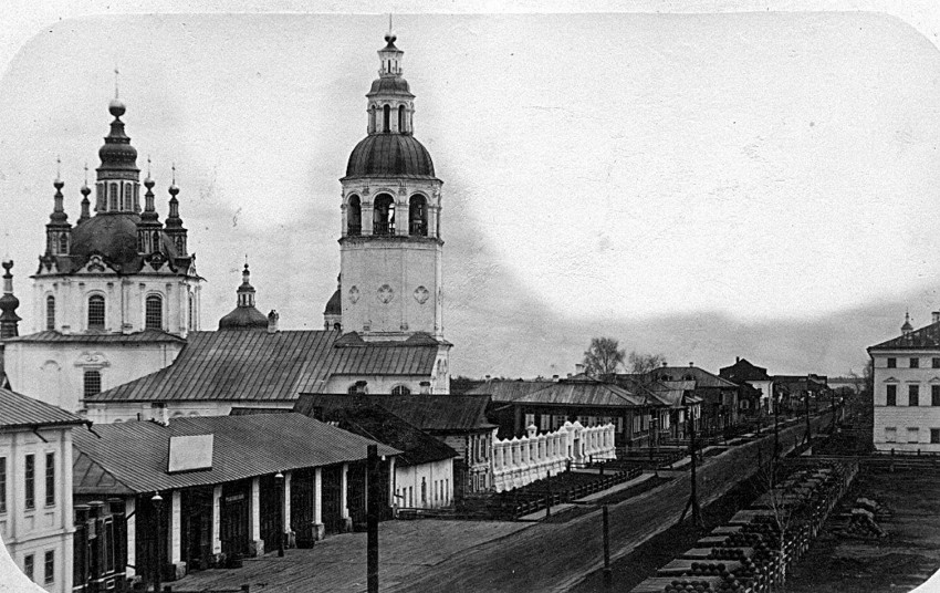 Annunciation Church in Tobolsk (1735-1758)